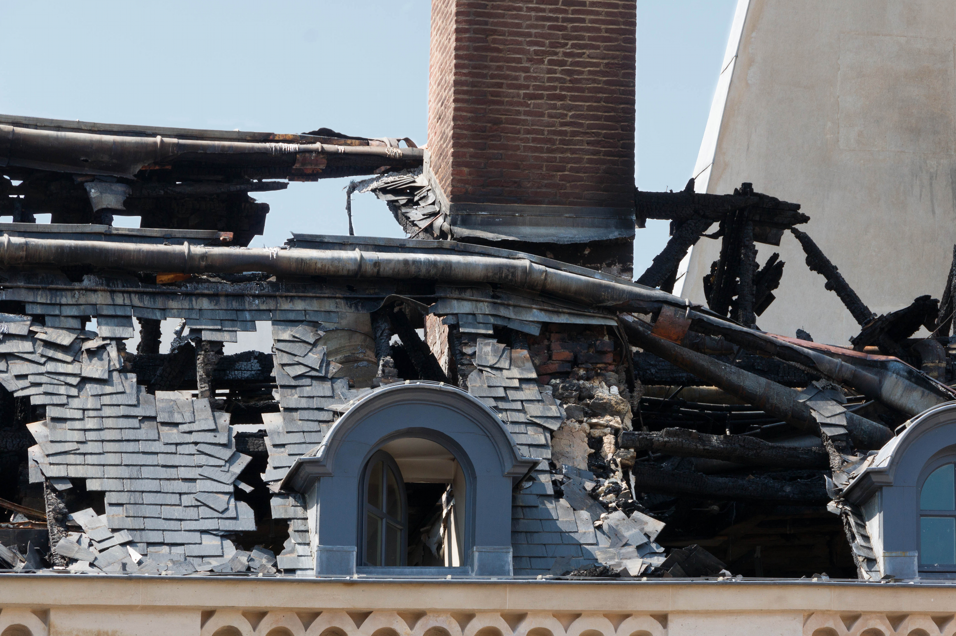 Details of the destructions of the roof of Hôtel Lambert in Paris, after the fire of the 9/10 july 2013.